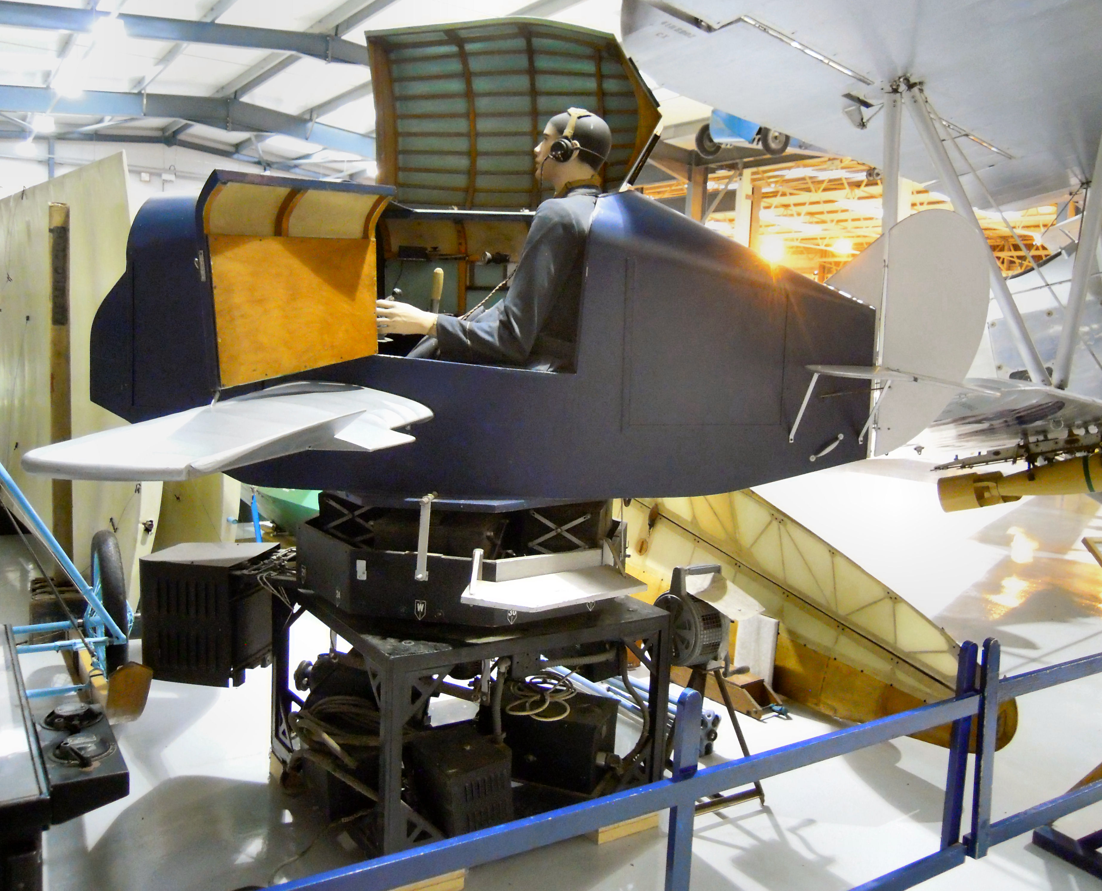 The Link Trainer on display at the Shuttleworth Collection near Biggleswade in Bedfordshire